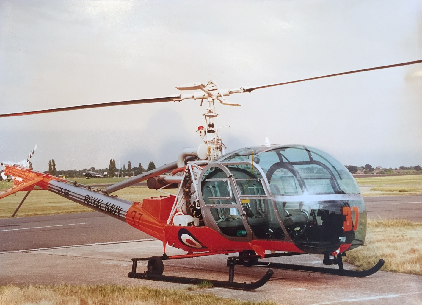 Hiller 12E4 Helicopter, completely restored to its original specifcation by 705sqn Royal Navy and is now on the air show circuit.